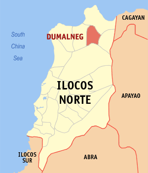 Map of Ilocos Norte showing the location of Dumalneg